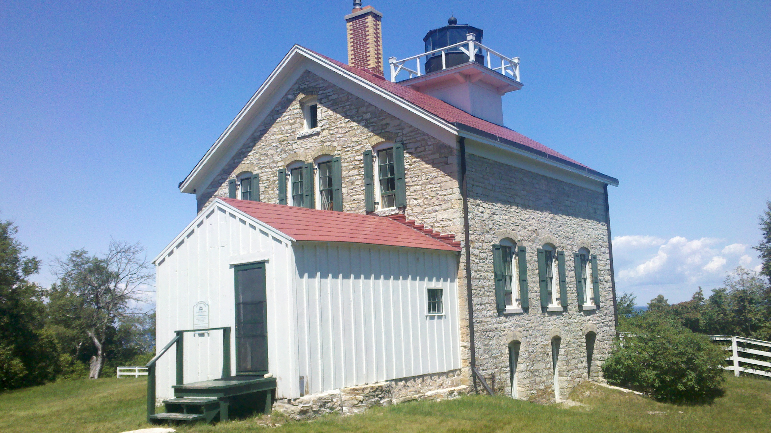 Pottawatomie Lighthouse